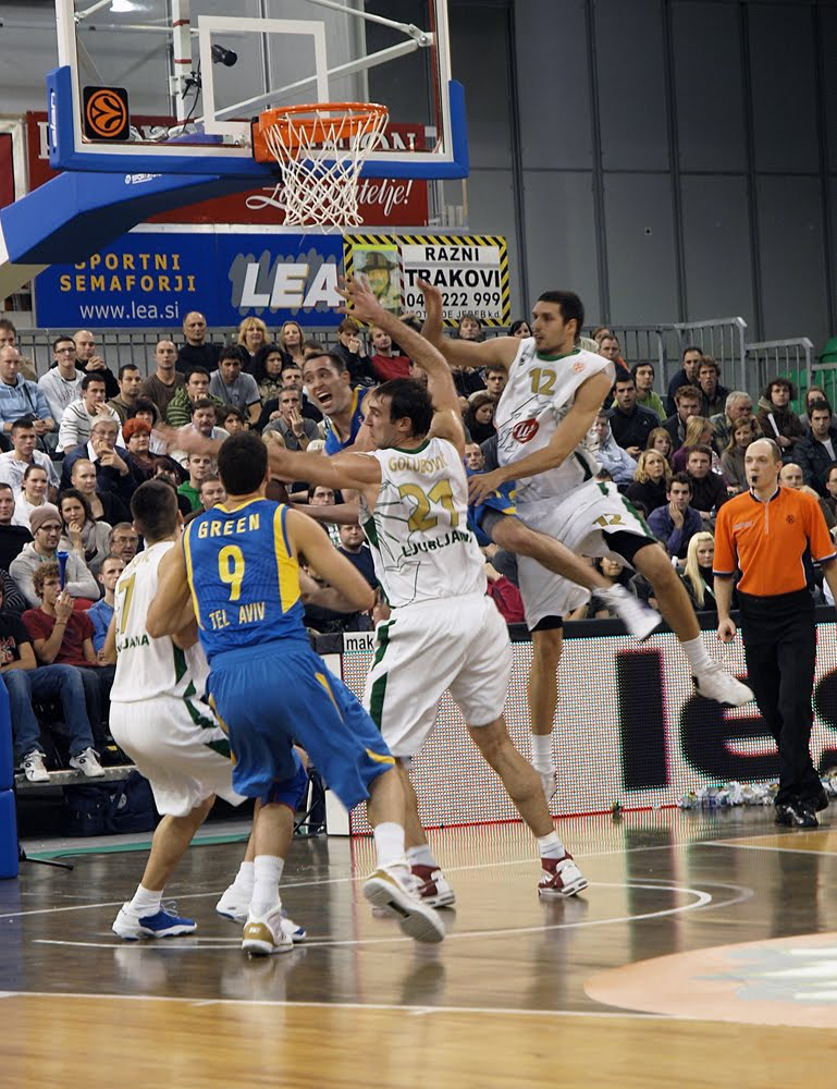 KK Union Olimpija vs Maccabi Tel Aviv in Hala Tivoli, Euroleague 2009/10